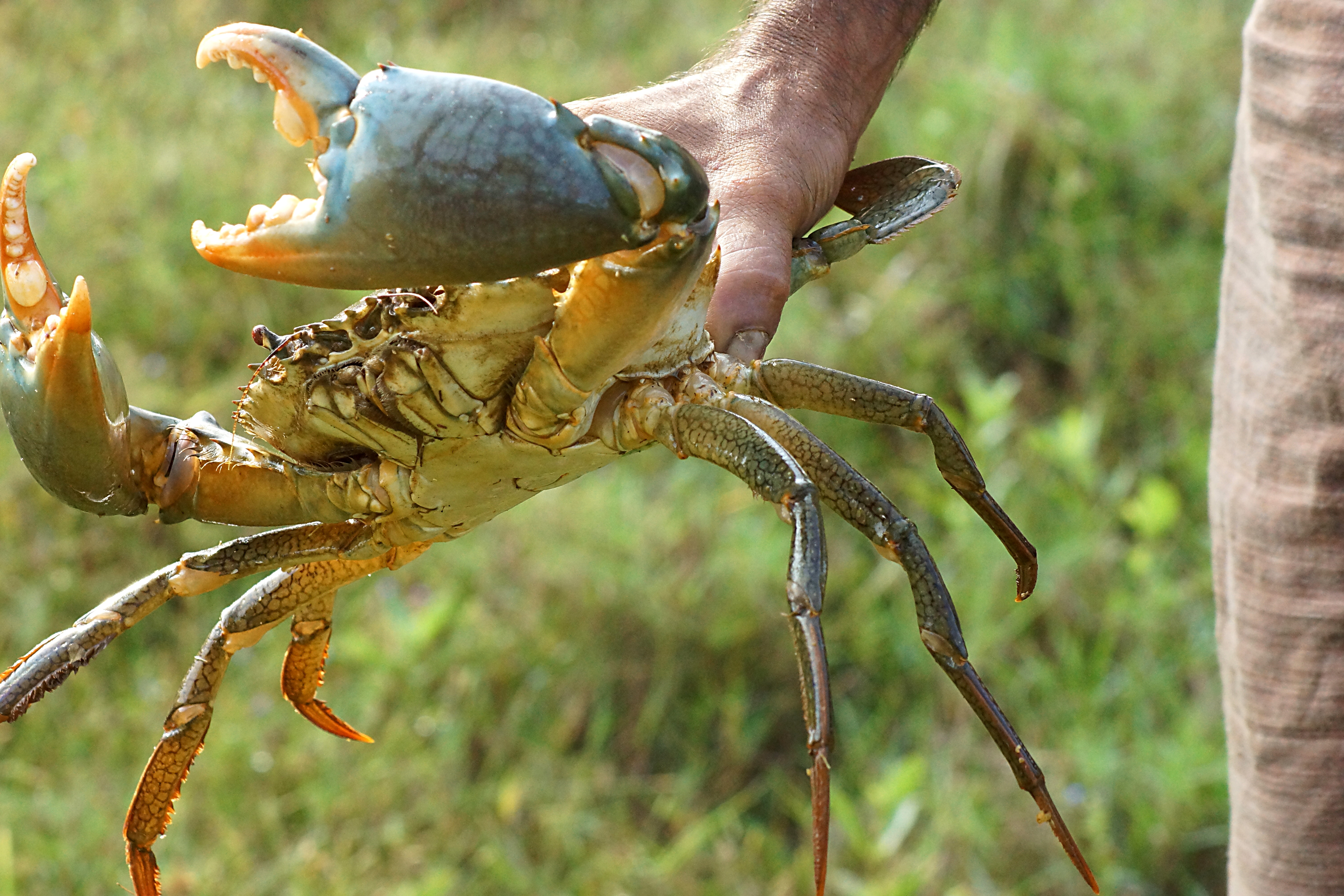 Mud crab